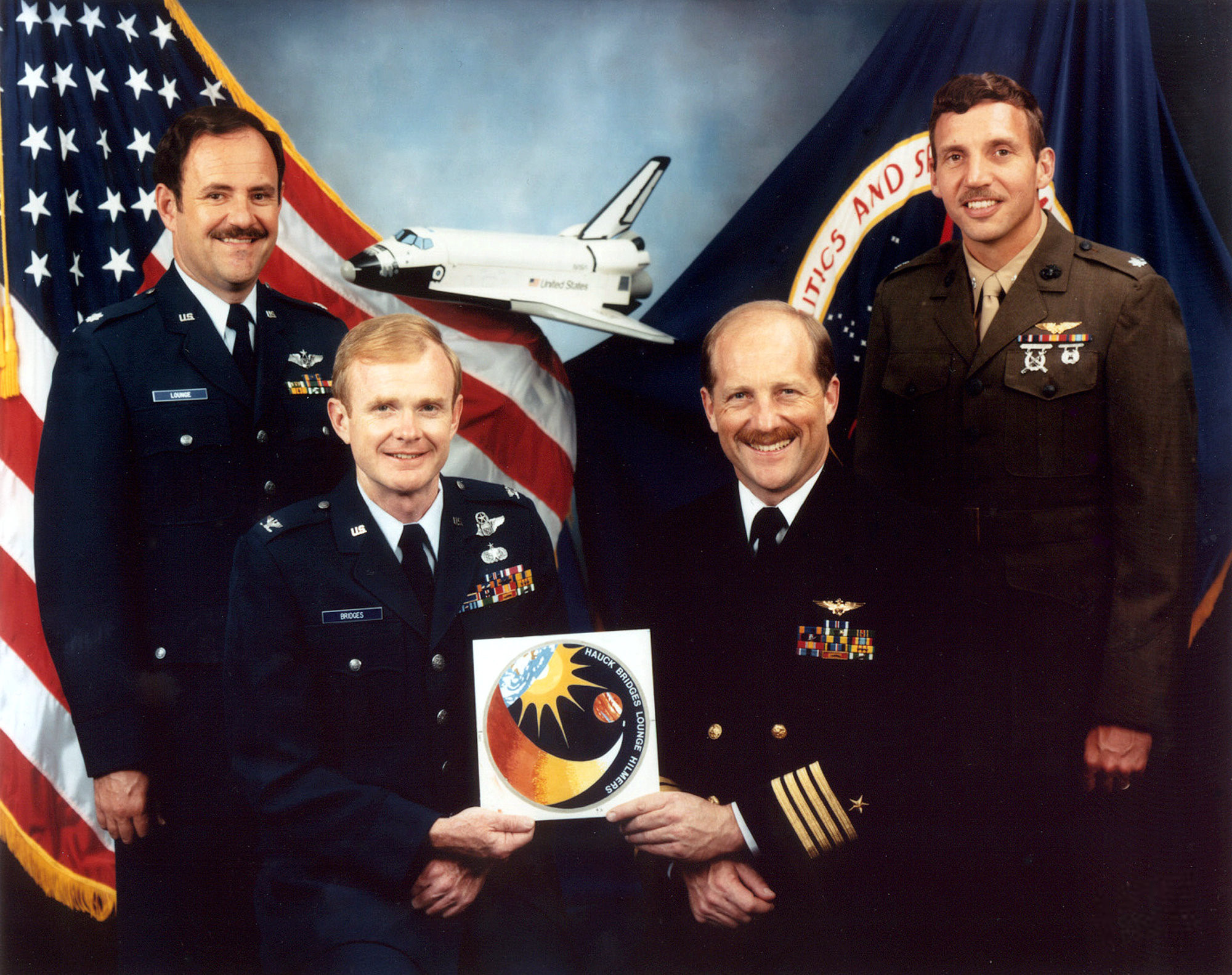 The crew for STS-61-F, which was cancelled after the loss of Space Shuttle Challenger. From left to right, John M. Lounge (Mission Specialist), Roy D. Bridges (Pilot), Frederick H. Hauck (Commander), and David C. Hilmers (Mission Specialist)